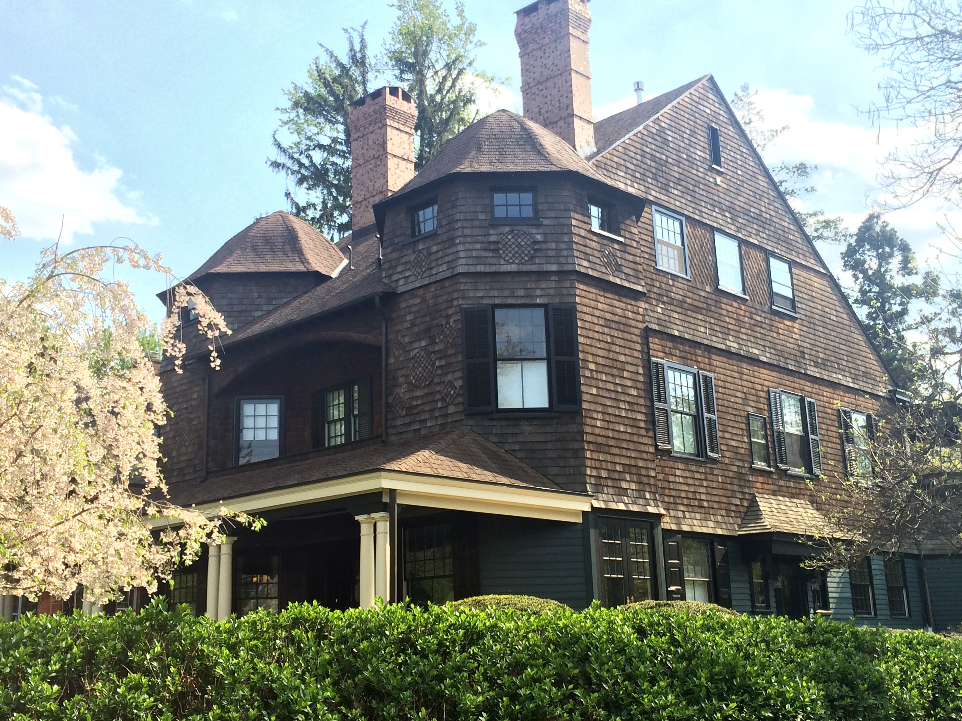 The William Berryman Scott House at 56 Bayard Lane, Princeton, New Jersey. A contributing property to the Princeton Historic District. Designed by A. Page Brown for William Berryman Scott, it is an interesting example of Shingle style architecture with ample proportions and skillful use of material. Built in 1888.